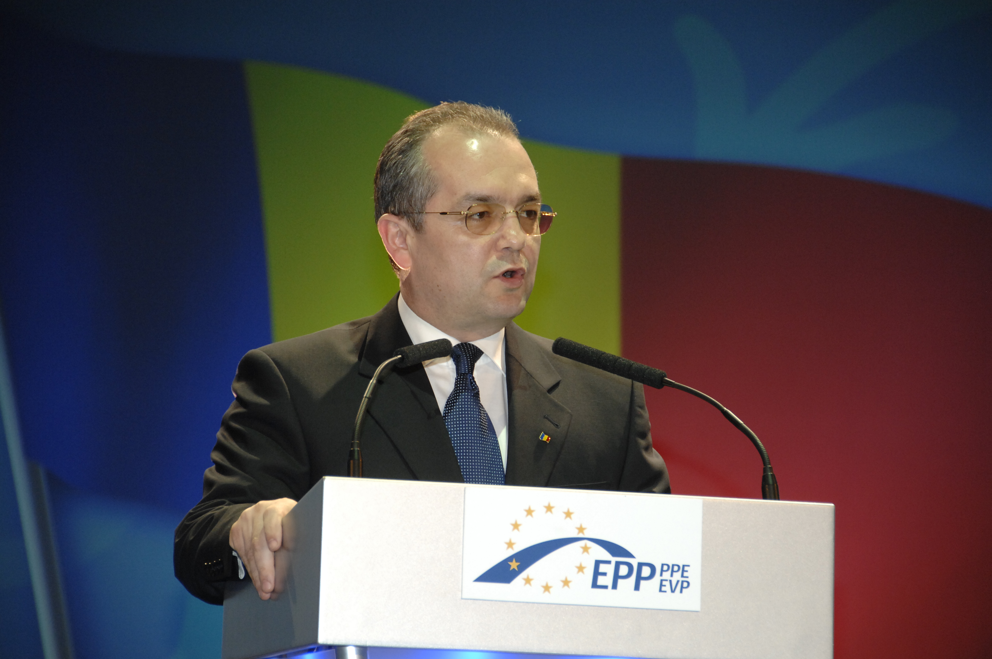 Emil Boc, prime minister of Romania, speaking at the EPP Congress Warsaw